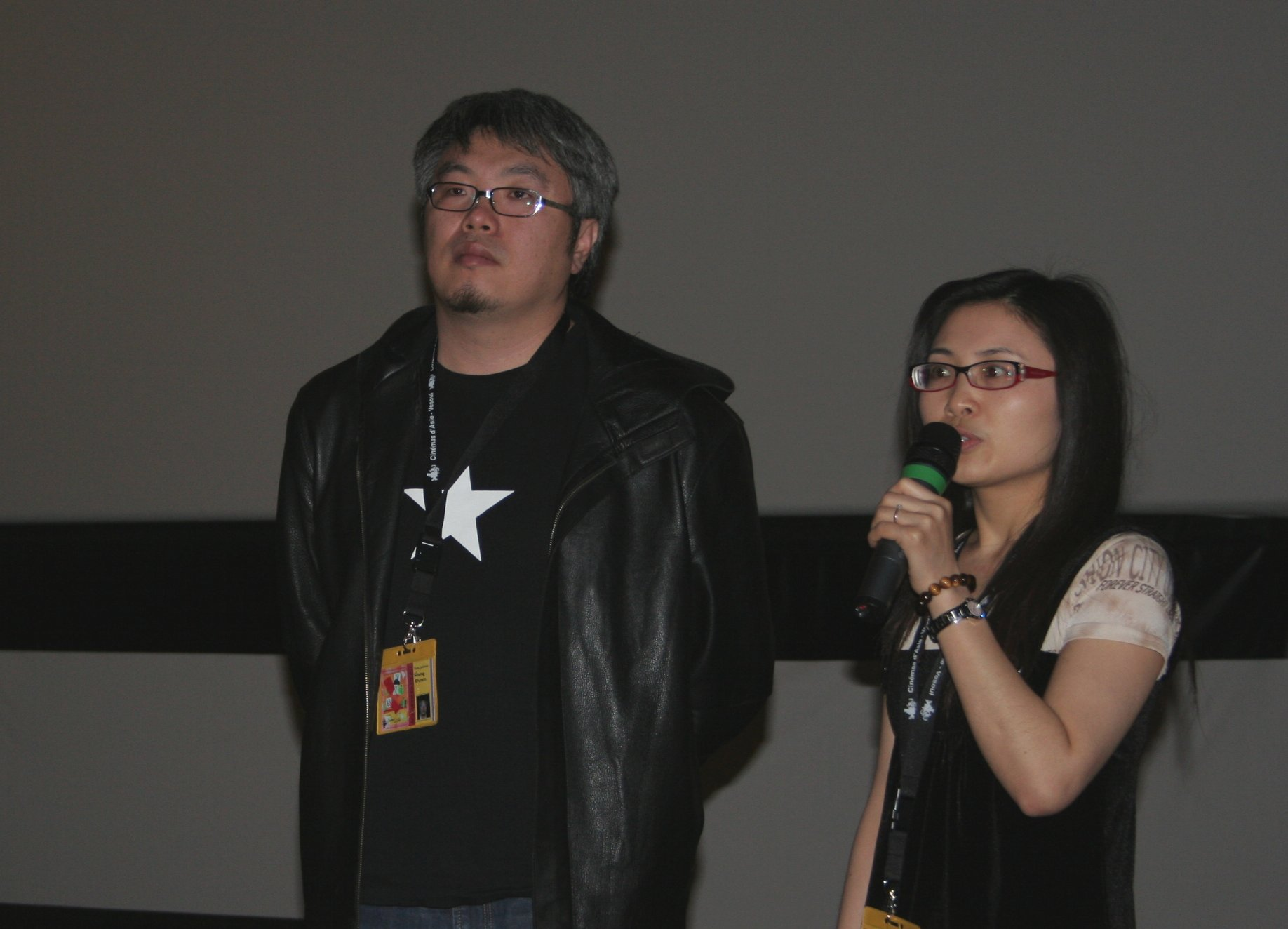 Sheng Zhimin at international asian movies festival in Vesoul